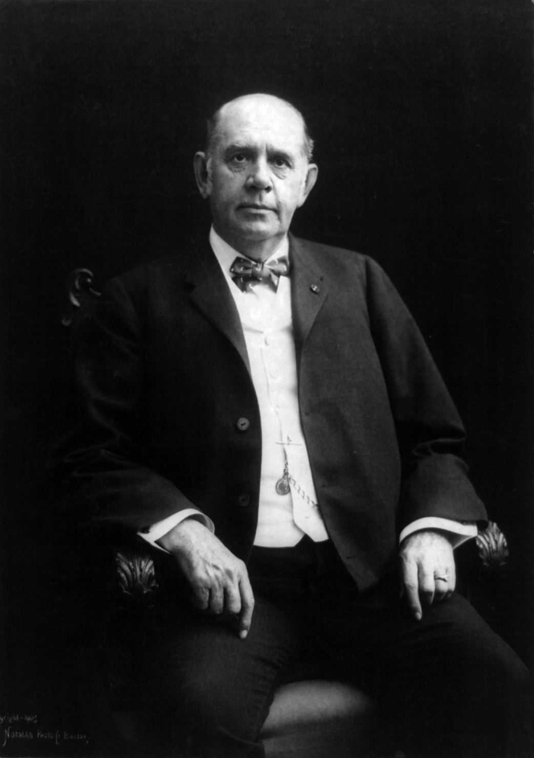 Mark Hanna, U.S. Senator from Ohio